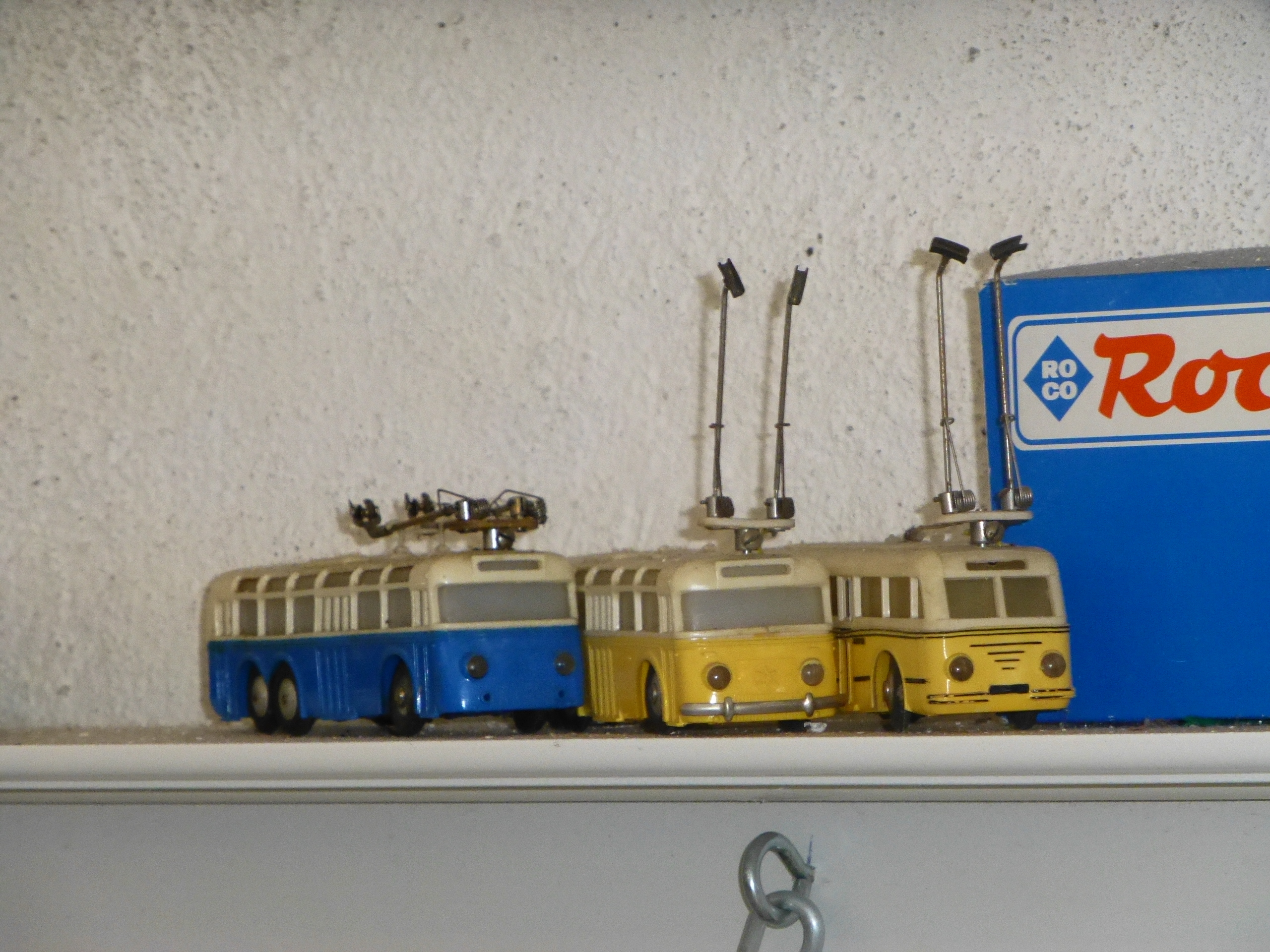 Models of trolleybuses from the German firm Eheim at Sporvejsmuseet Skjoldenæsholm in Denmark.